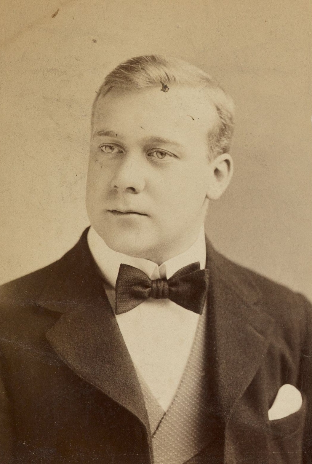 Cabinet card image of English actor, director, and writer Leedham Bantock (1870-1928). Cropped version. From a collection dated 1918. TCS 1.1157, Harvard Theatre Collection, Harvard University